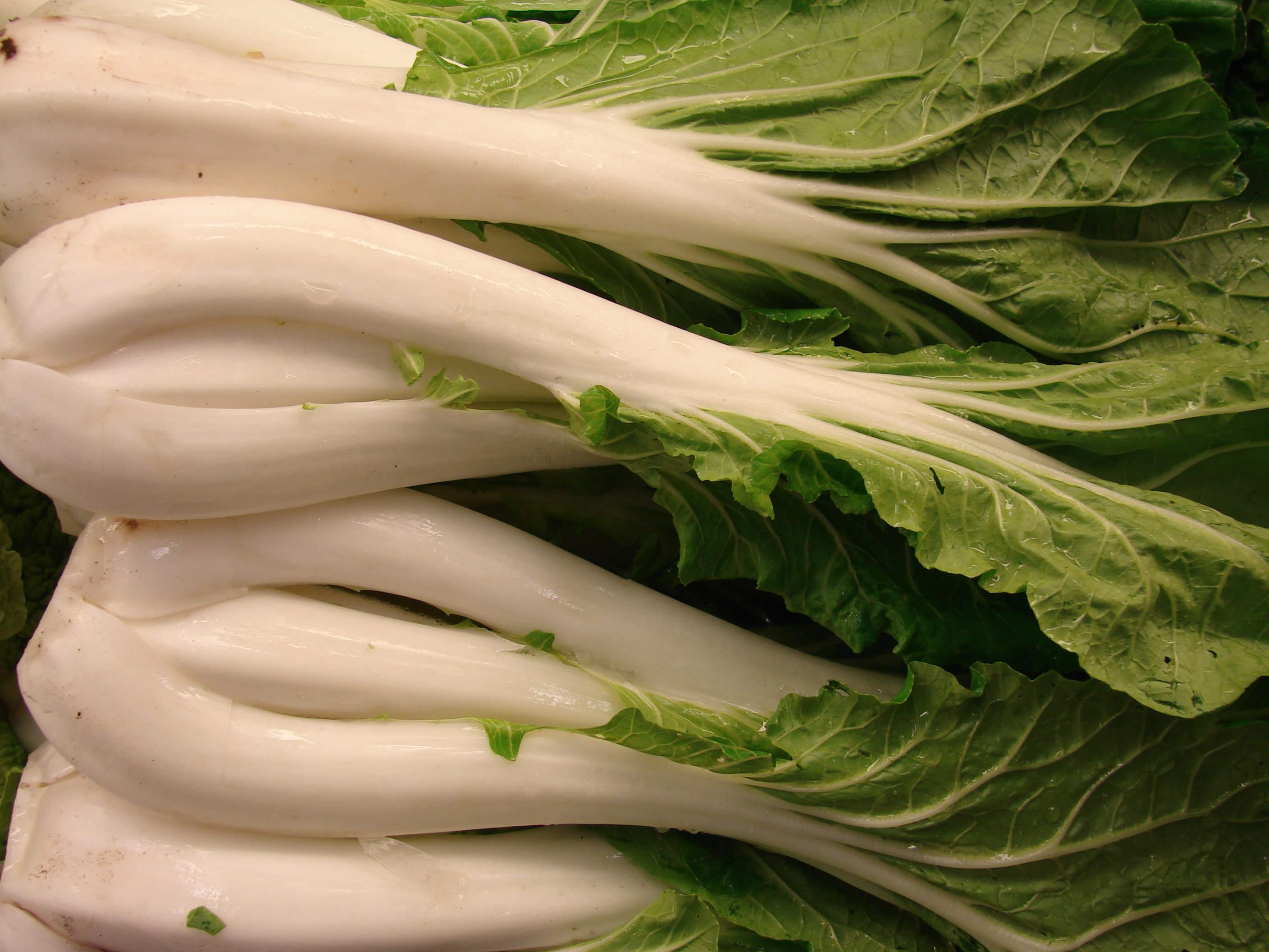 Brassica rapa (Chinese cabbage). Location: Maui, Foodland Pukalani